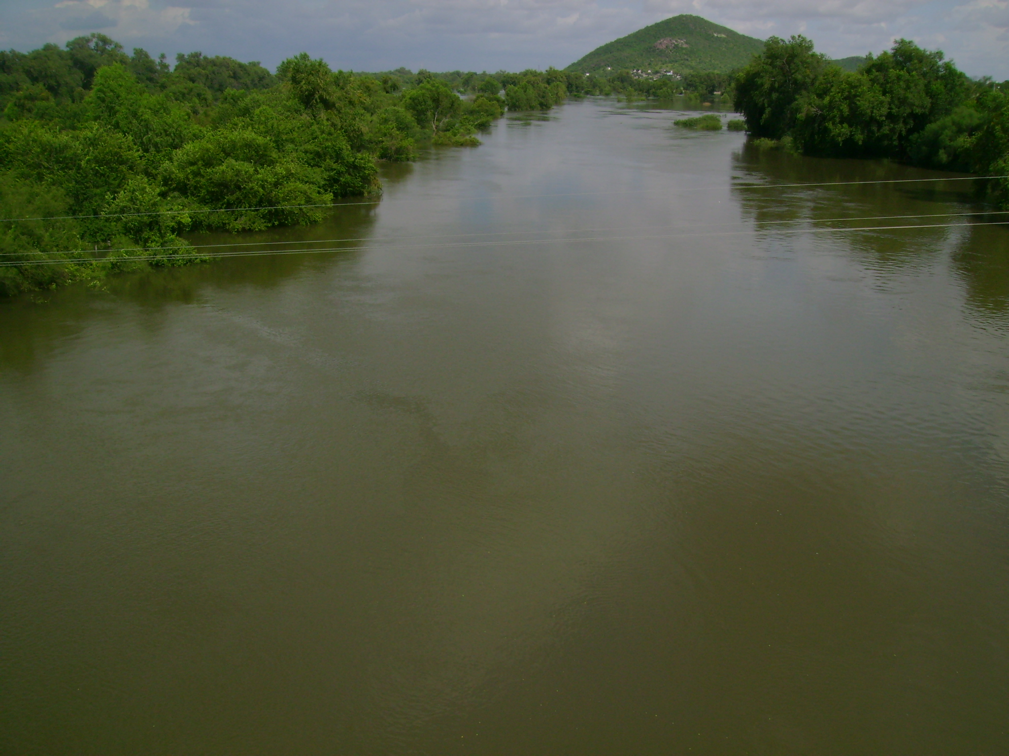 El Río Fuerte